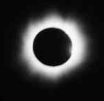 Sun corona, Balaton, Hungary